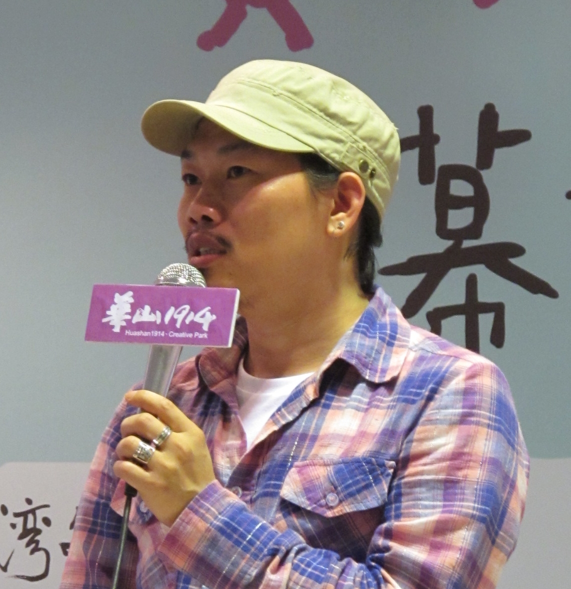 Vincent Fang at Huashan 1914 Creative Park, "Book Collecting Authentication conference". Sponsor: Taiwan Cultural-Creative Development Foundation.